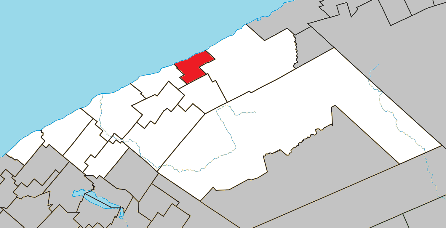 Location of Grosses-Roches, Quebec within Matane Regional County Municipality.